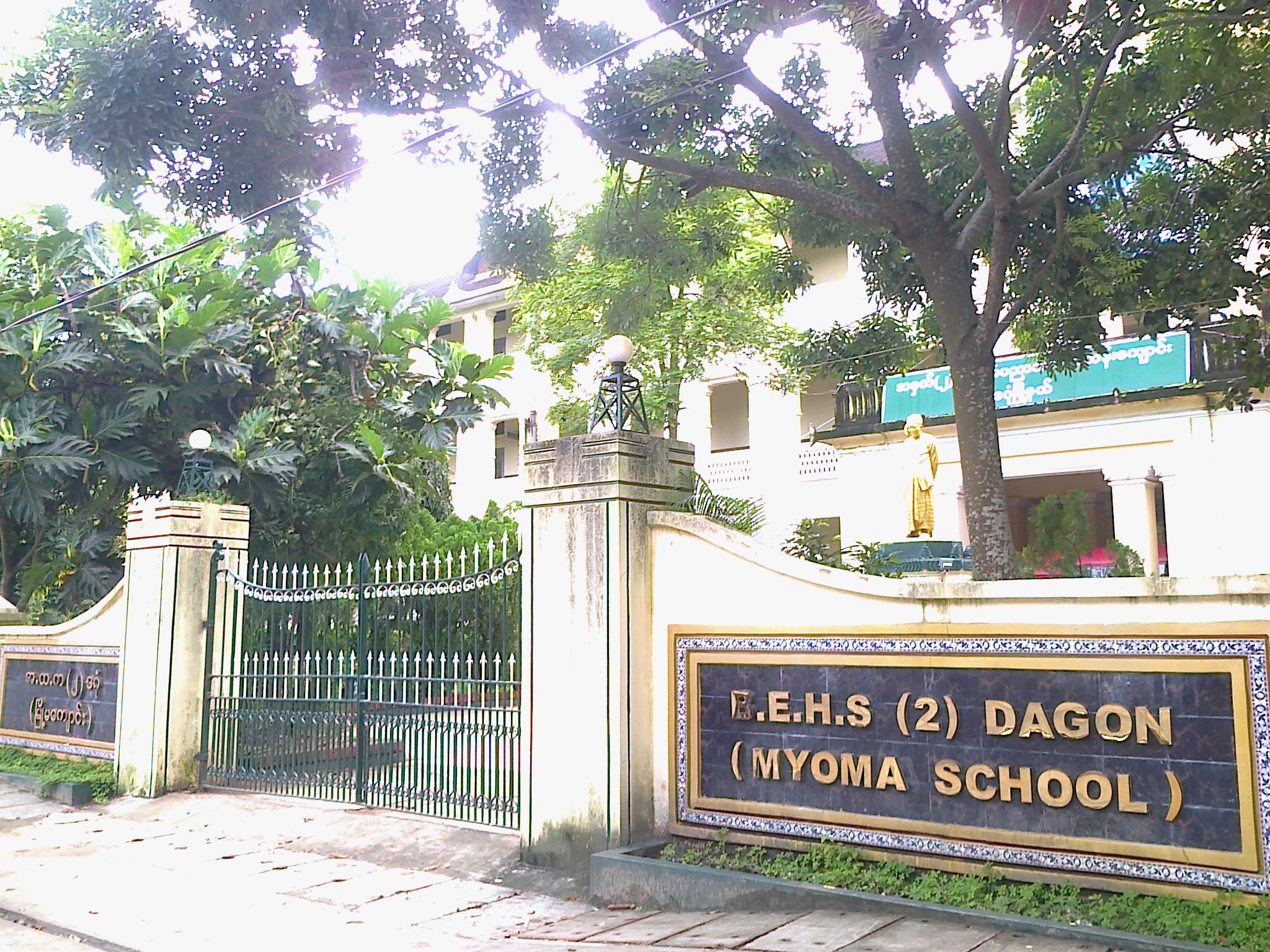 BEHS 2 Dagon - Myoma School was the first nationalist high school, founded in 1920. There is a statue of U Ba Lwin (the school founder and principal) is put in front of school building.